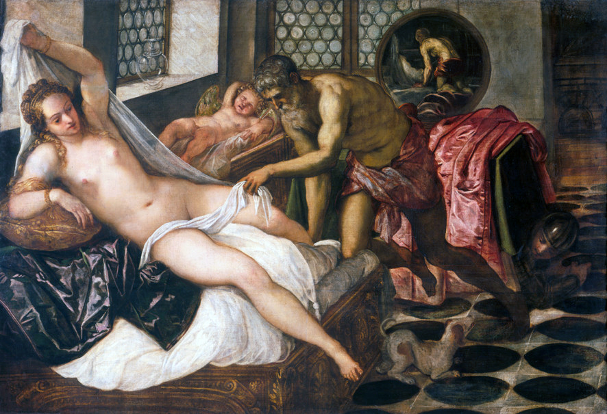 Venus, Mars and Vulcan